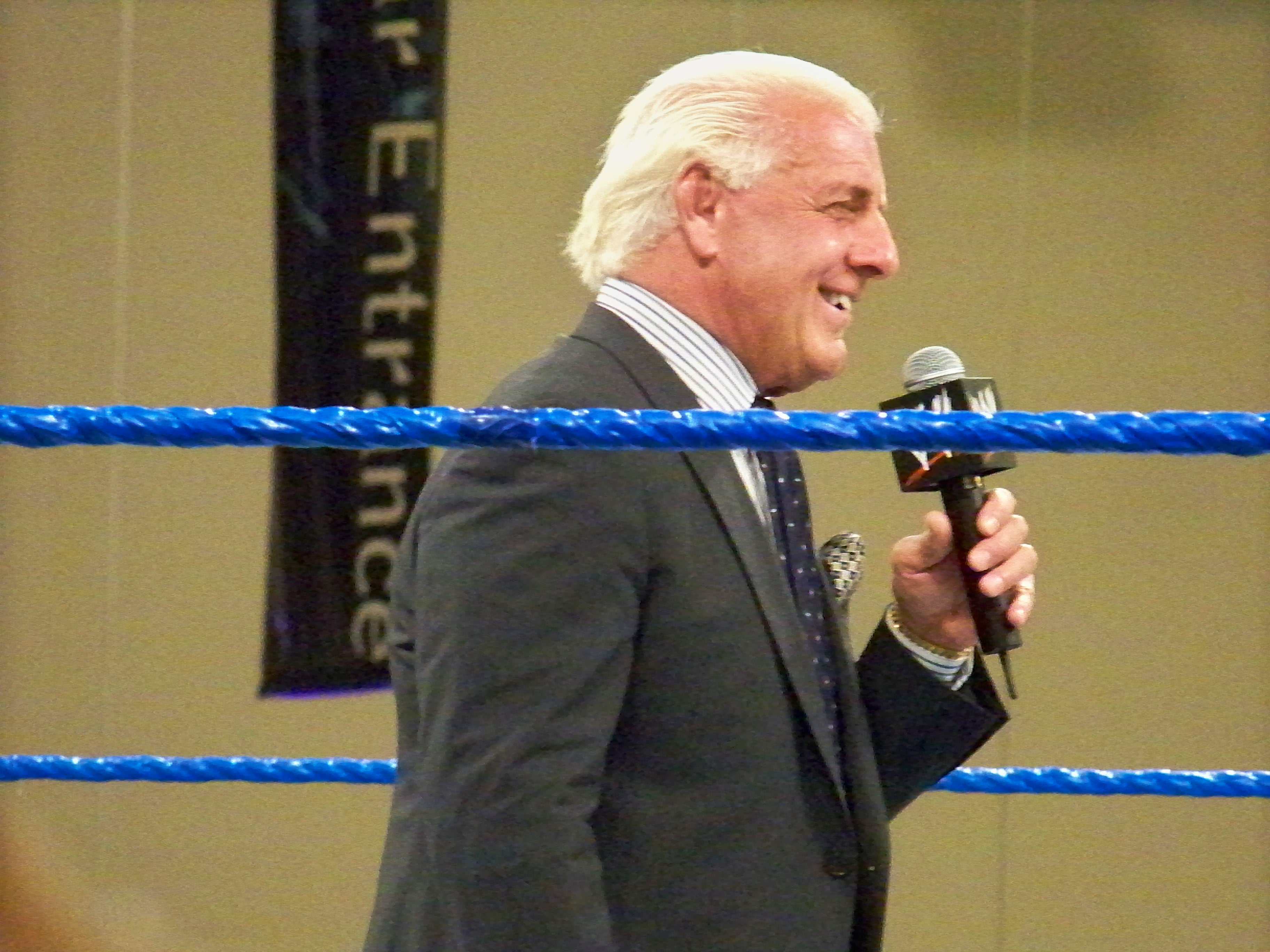 Tres en forme Ric ce matin la